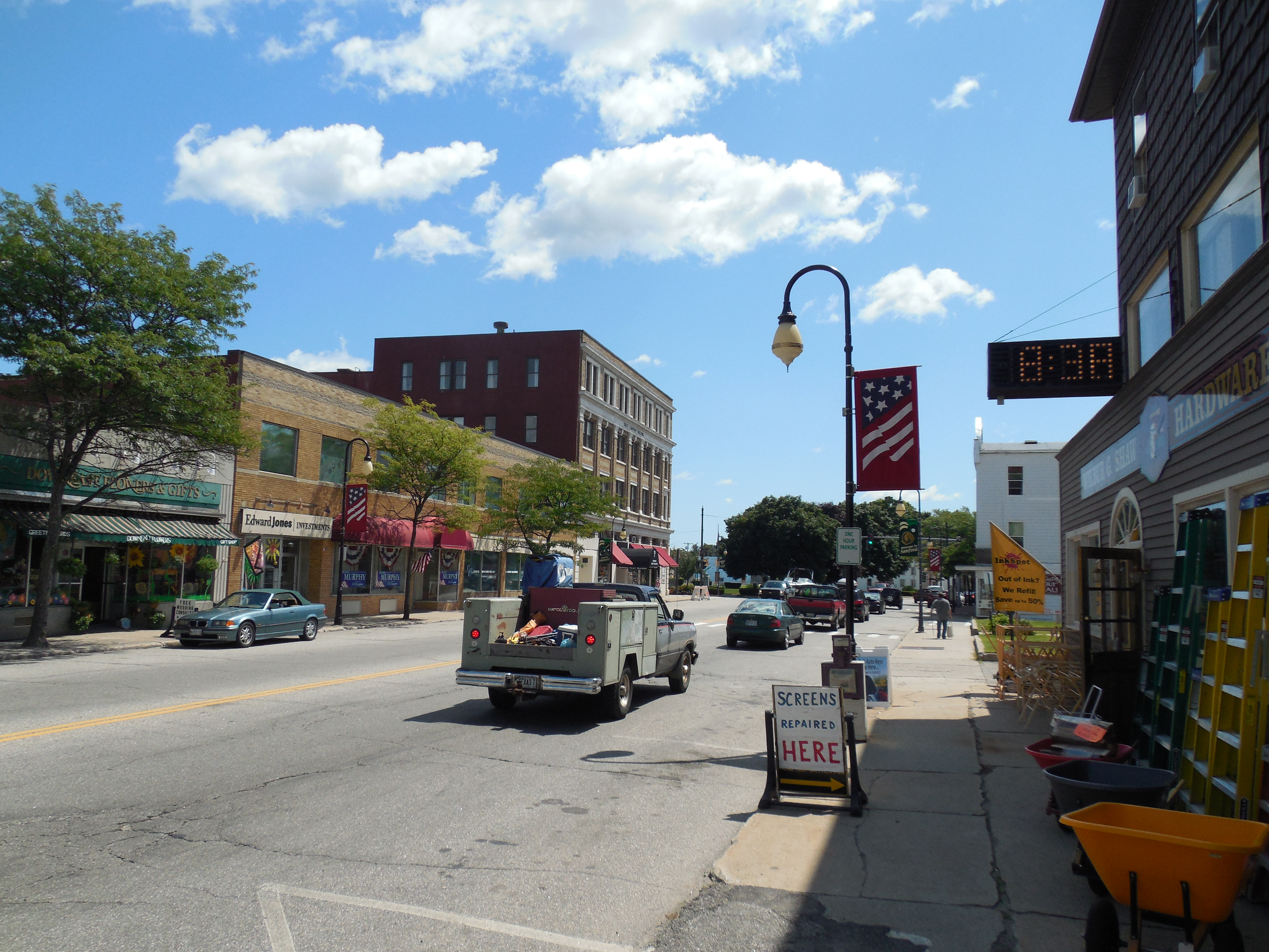 Main Street, Sanford Maine